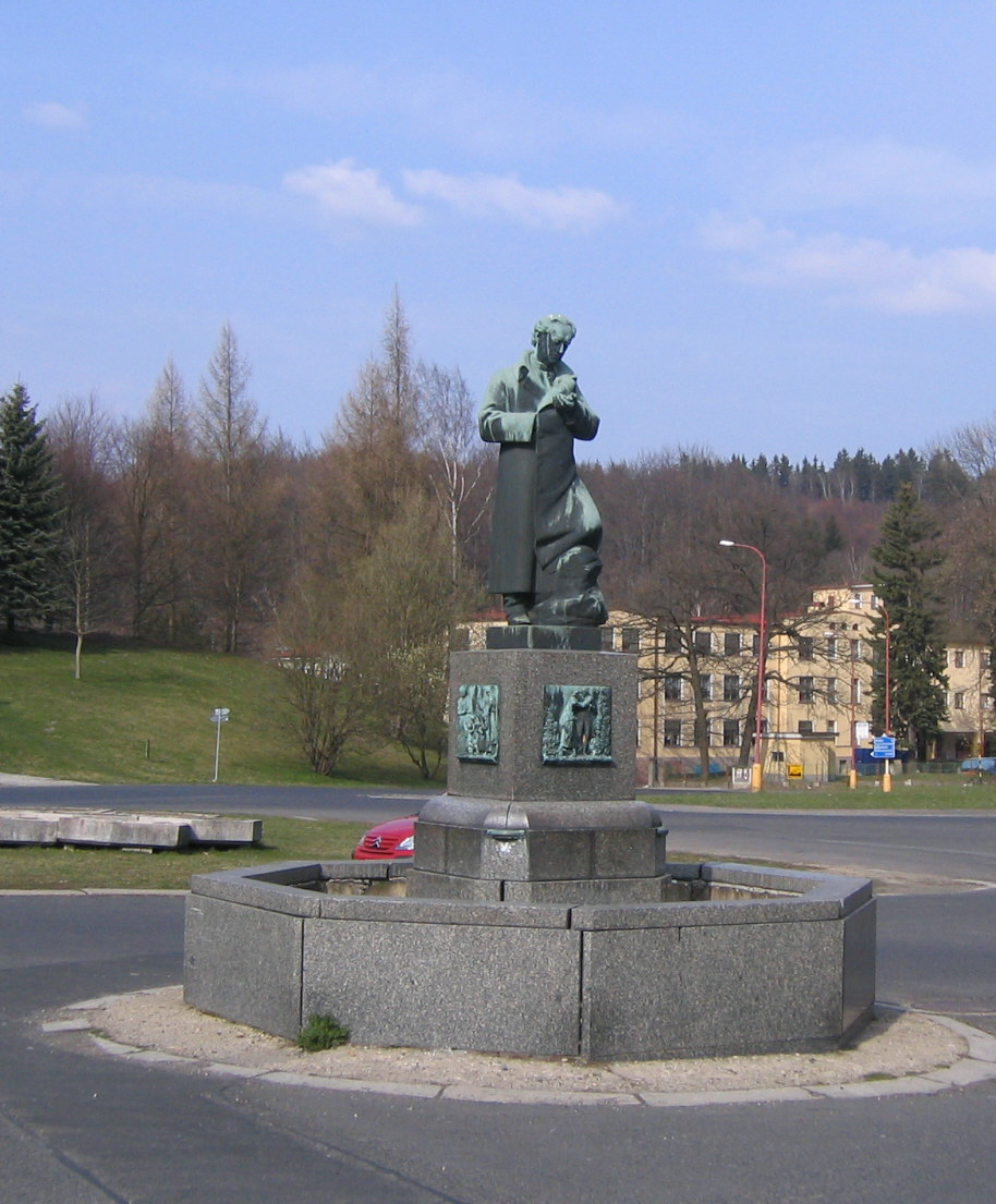 Monument J.W. von Goethe in As, Czech Rep.